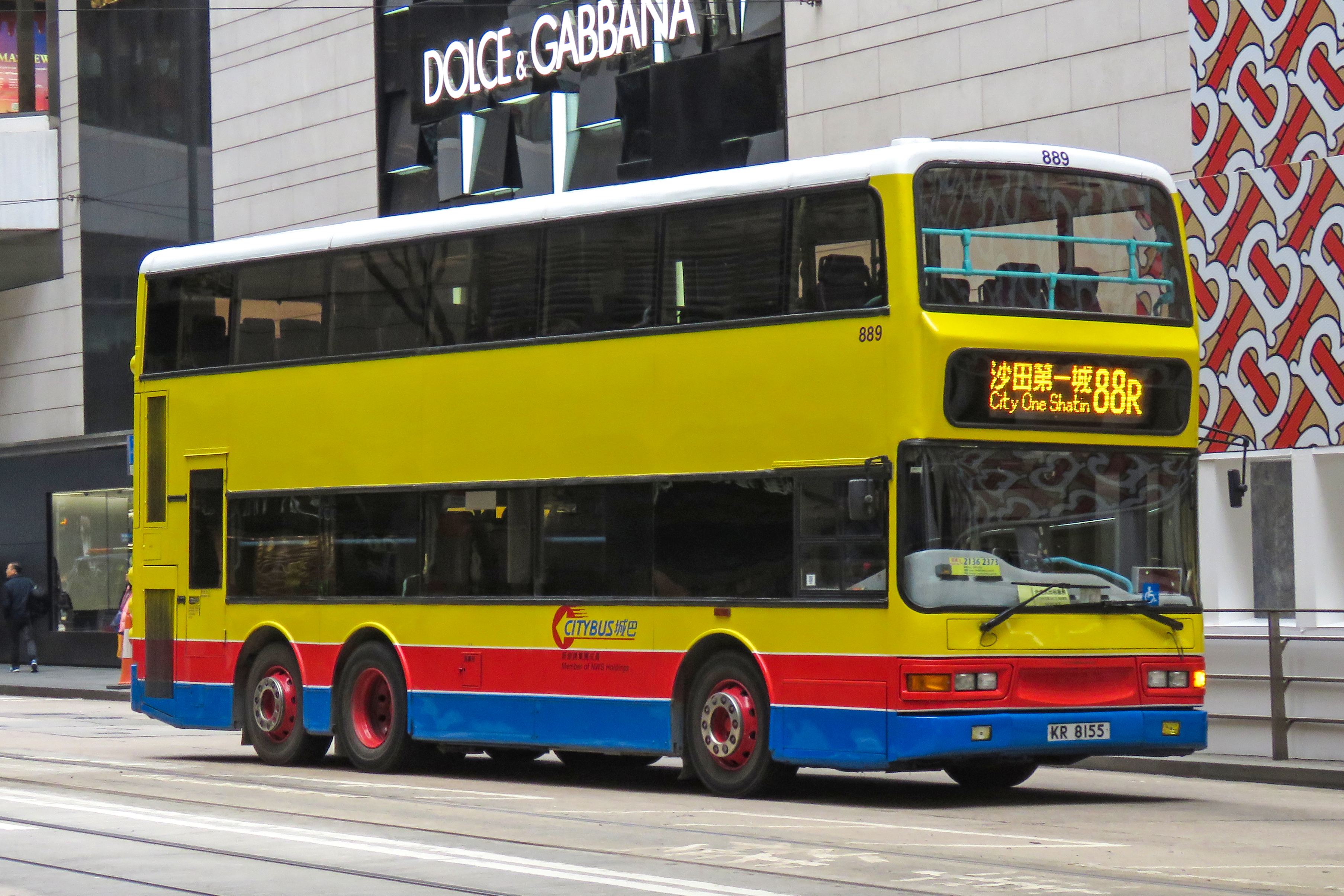 Just a few steps away from Ice House Street tram stop, making here a place to spot both 88R and the trams - eastbound only.